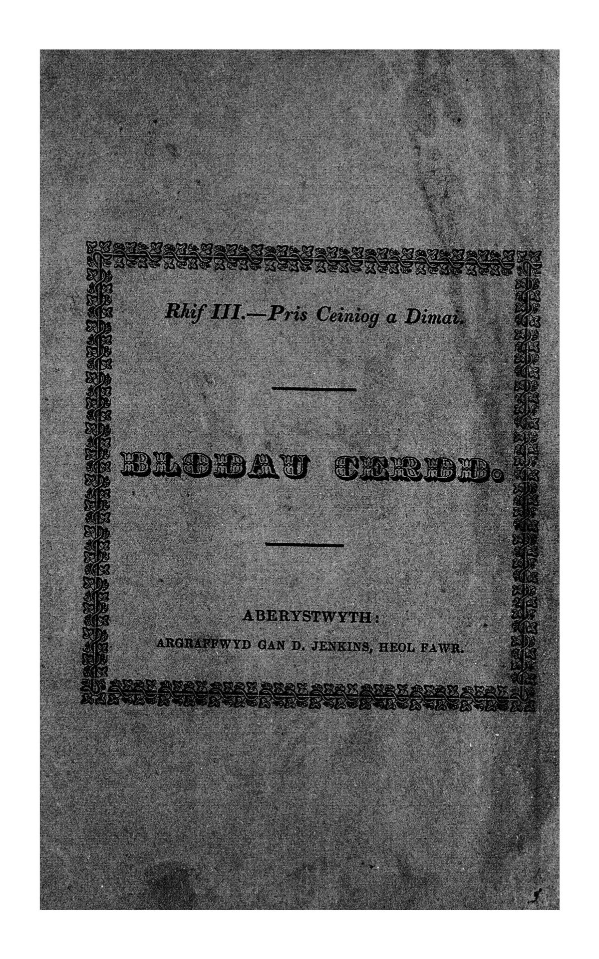 A monthly music periodical that was intended for the young people of the Sunday schools. The periodical's main contents were musical lessons and tunes. Despite being recognised as the first music periodical in Welsh, technically it was a book published in seven parts. The periodical was edited by the musician, John Roberts (Ieuan Gwyllt, 1822-1877).